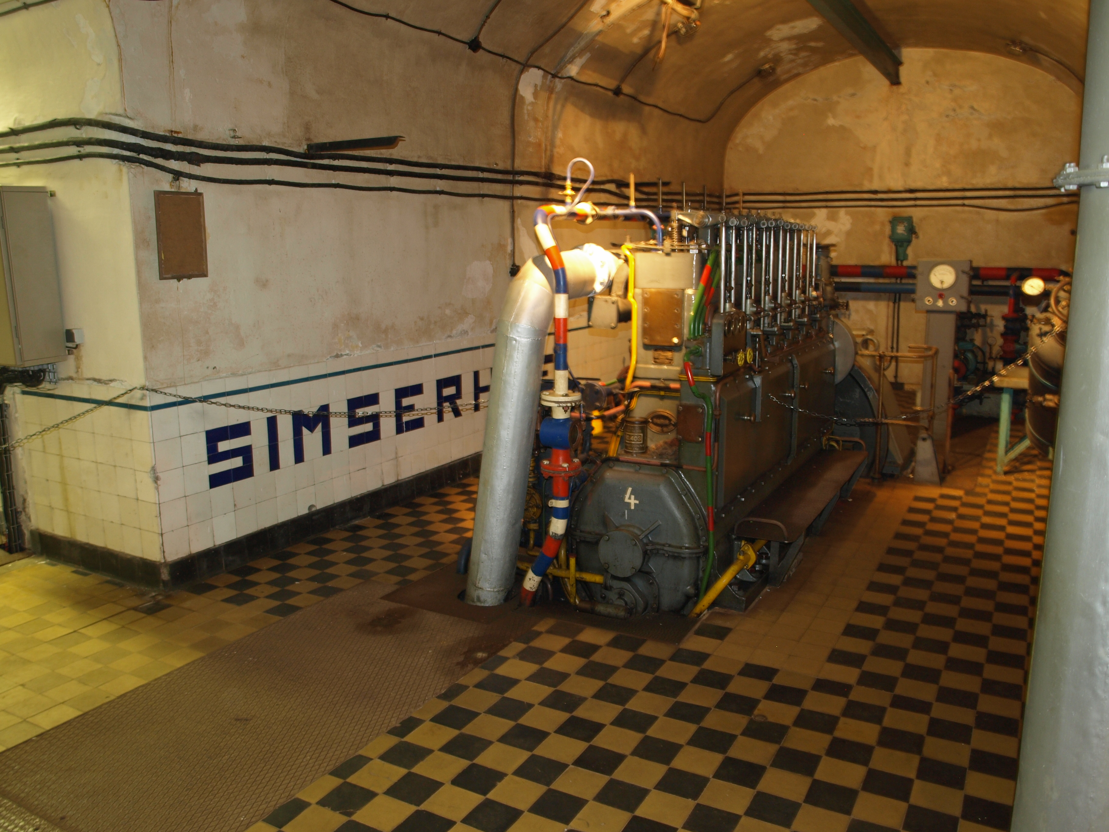 Fortress Simserhof in the Maginot-Line.